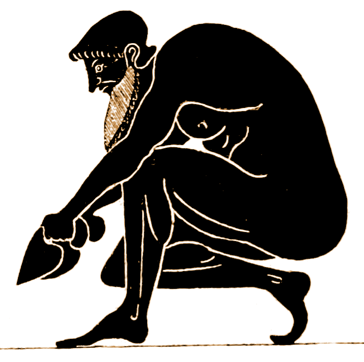 Greek in semi-crouching position with an apparent arm exercises with two dumbbells, - copy drawing of an antique vase image.